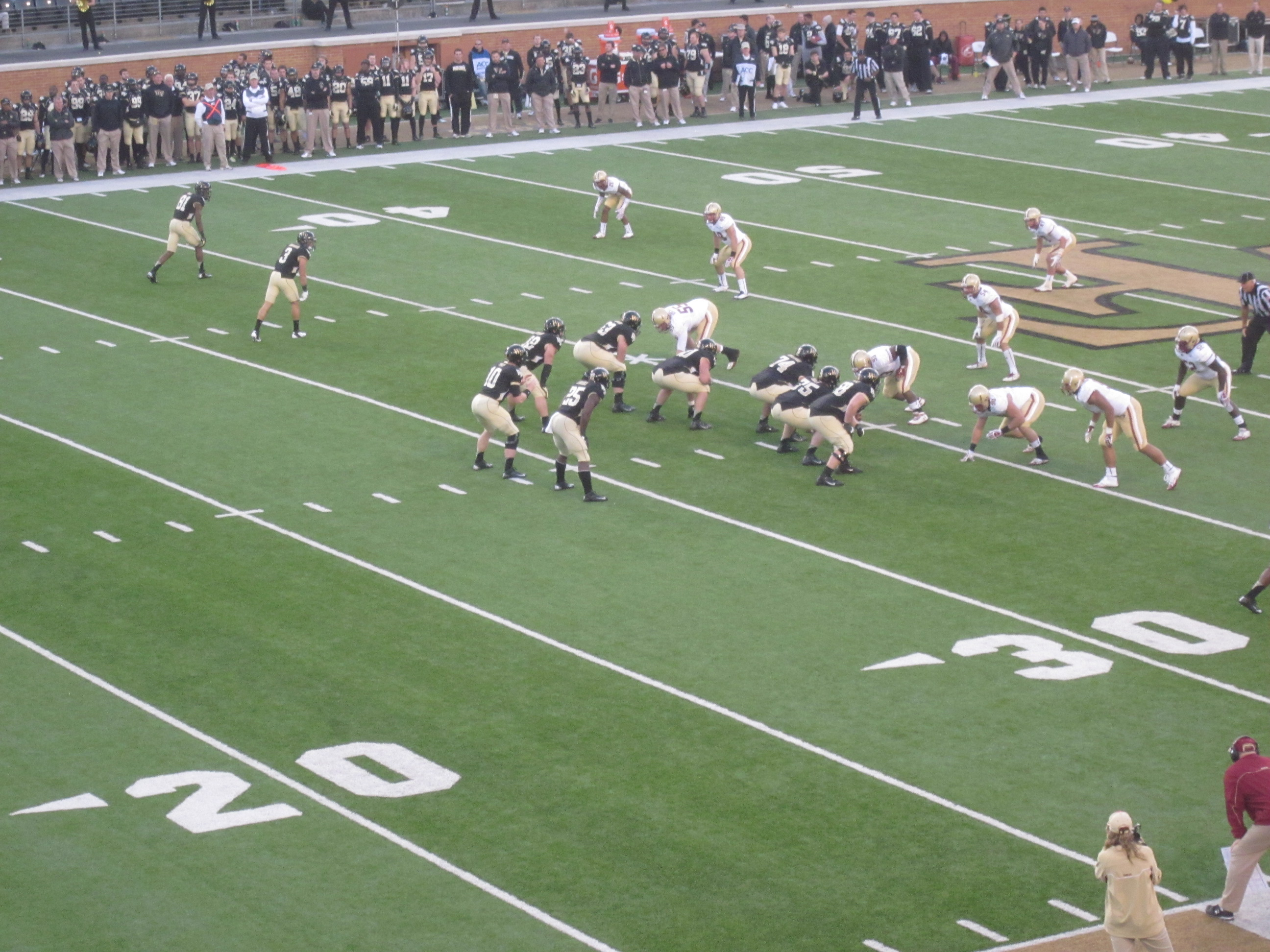 Picture from the Wake Forest/Boston College game on November 3, 2012